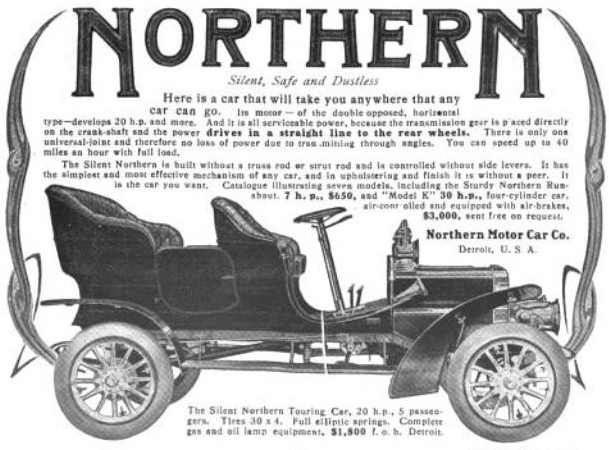 Northern Motor Car Company of Detroit, Michigan - 1906